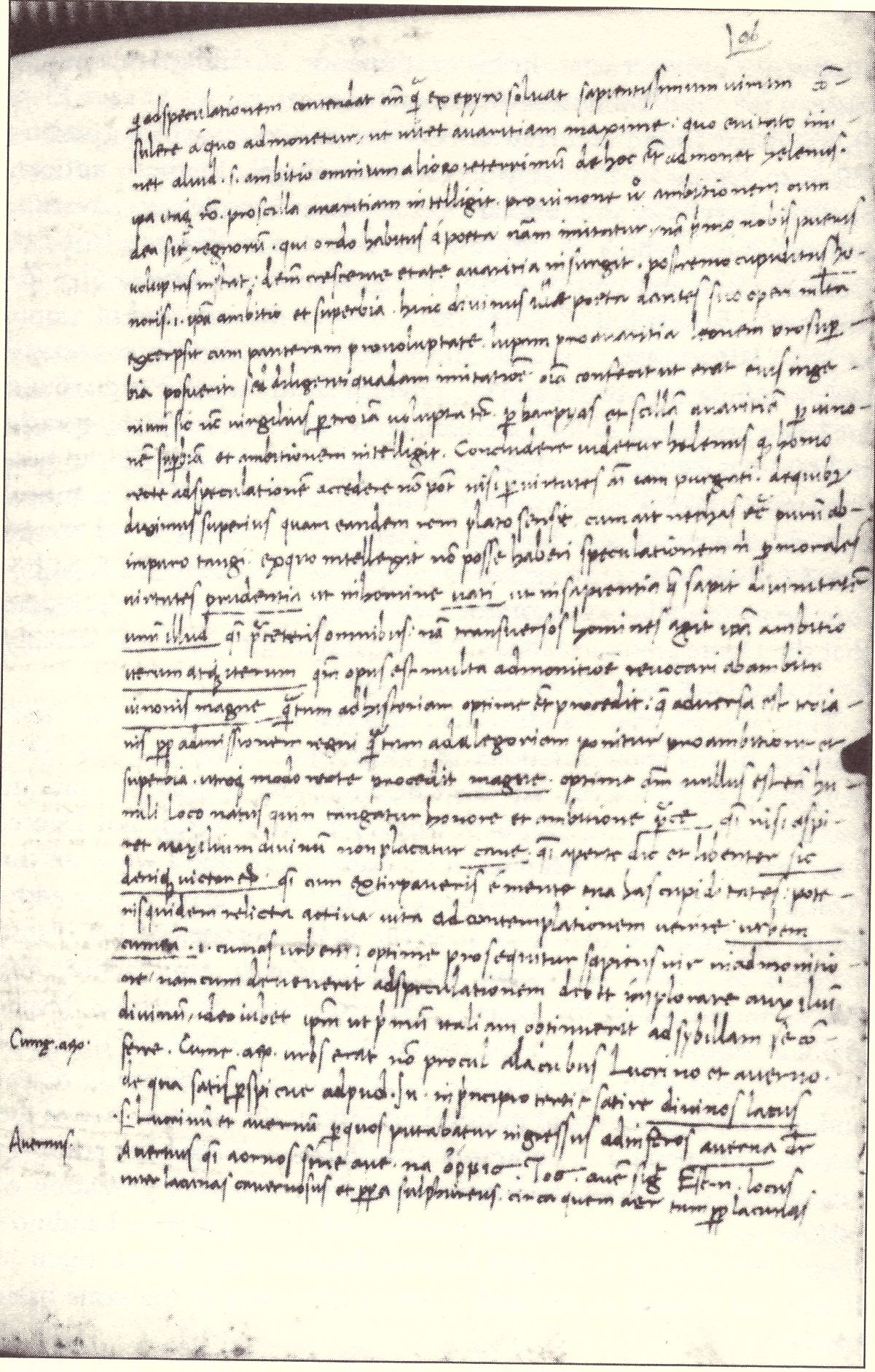 A student's notes from one of Landino’s university courses on Virgil in the manuscript Florence, Biblioteca Medicea Laurenziana, 52.32, fol. 96r.